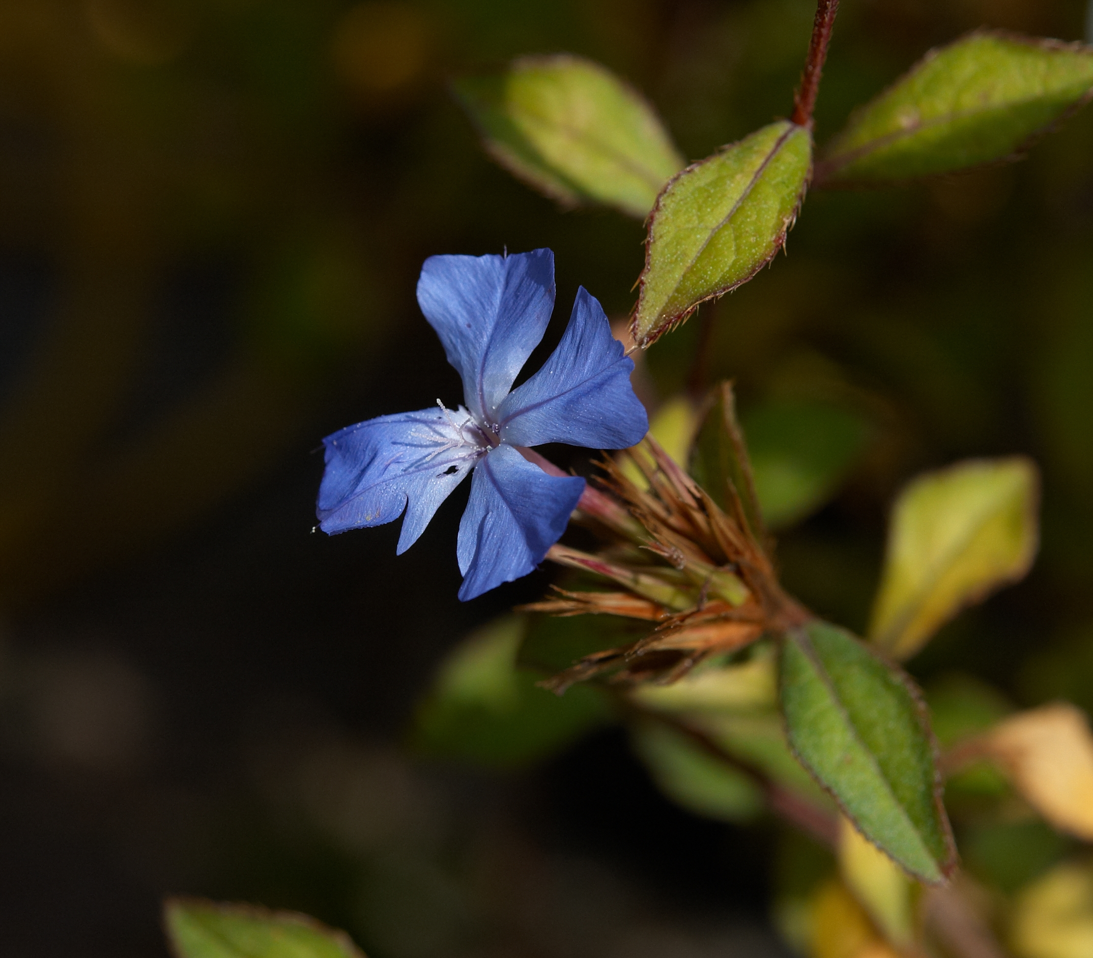 Ceratostigma willmottianum